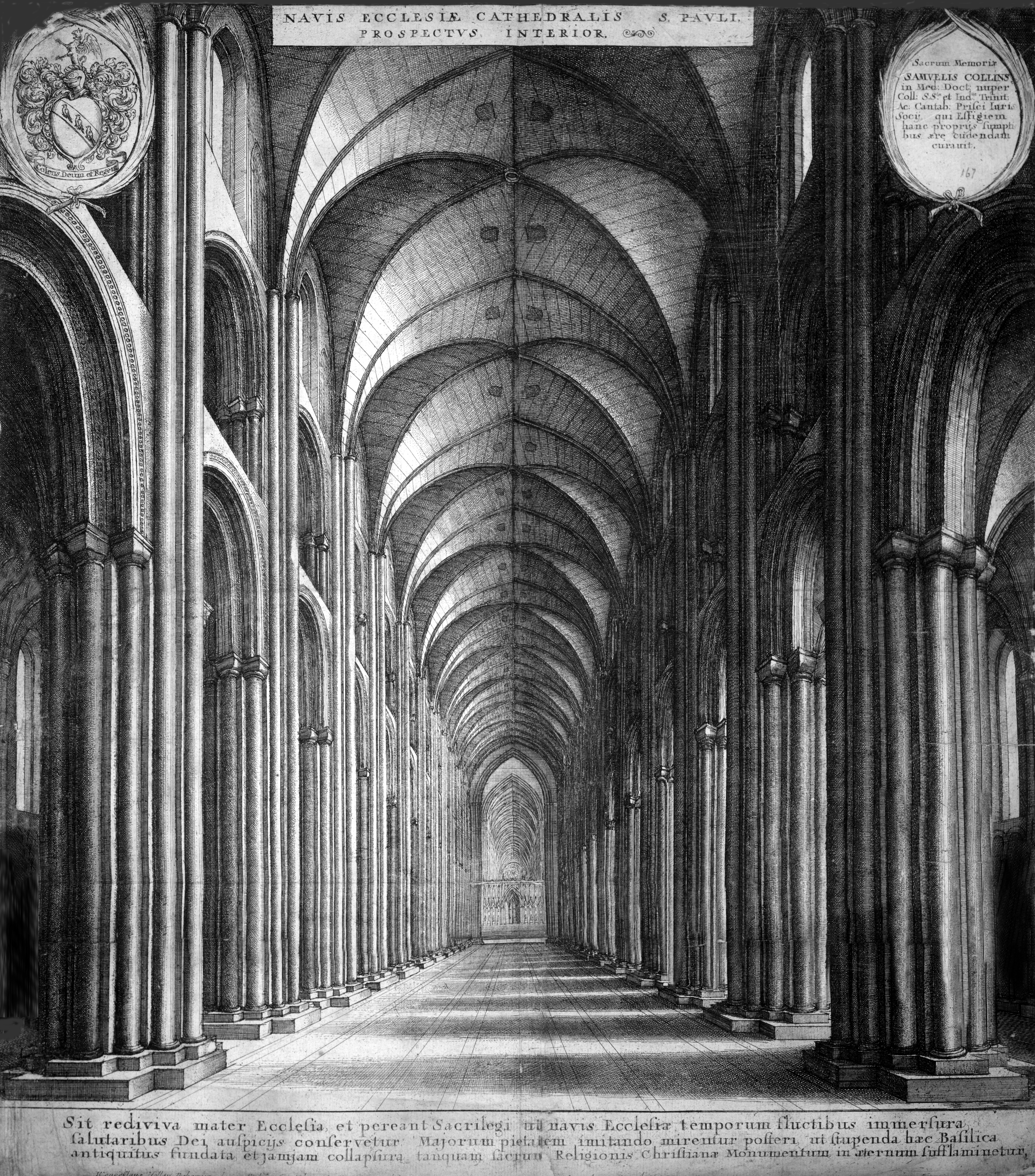 Digitally restored version - page tears, marks and scratches and folding creases removed, desaturated, re-aligned.